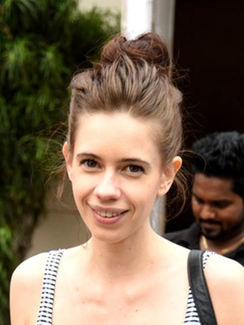 Kalki Koechlin snapped at an ad shoot